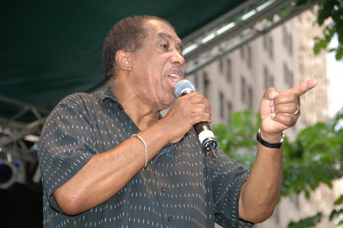 Ben E. King performing at the 2006 Summerfest, Manhattan, New York. June 2006.